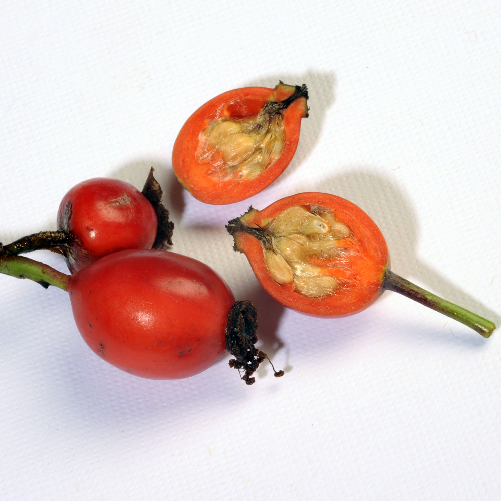 Rose hips picked in November 2009 in Sweden